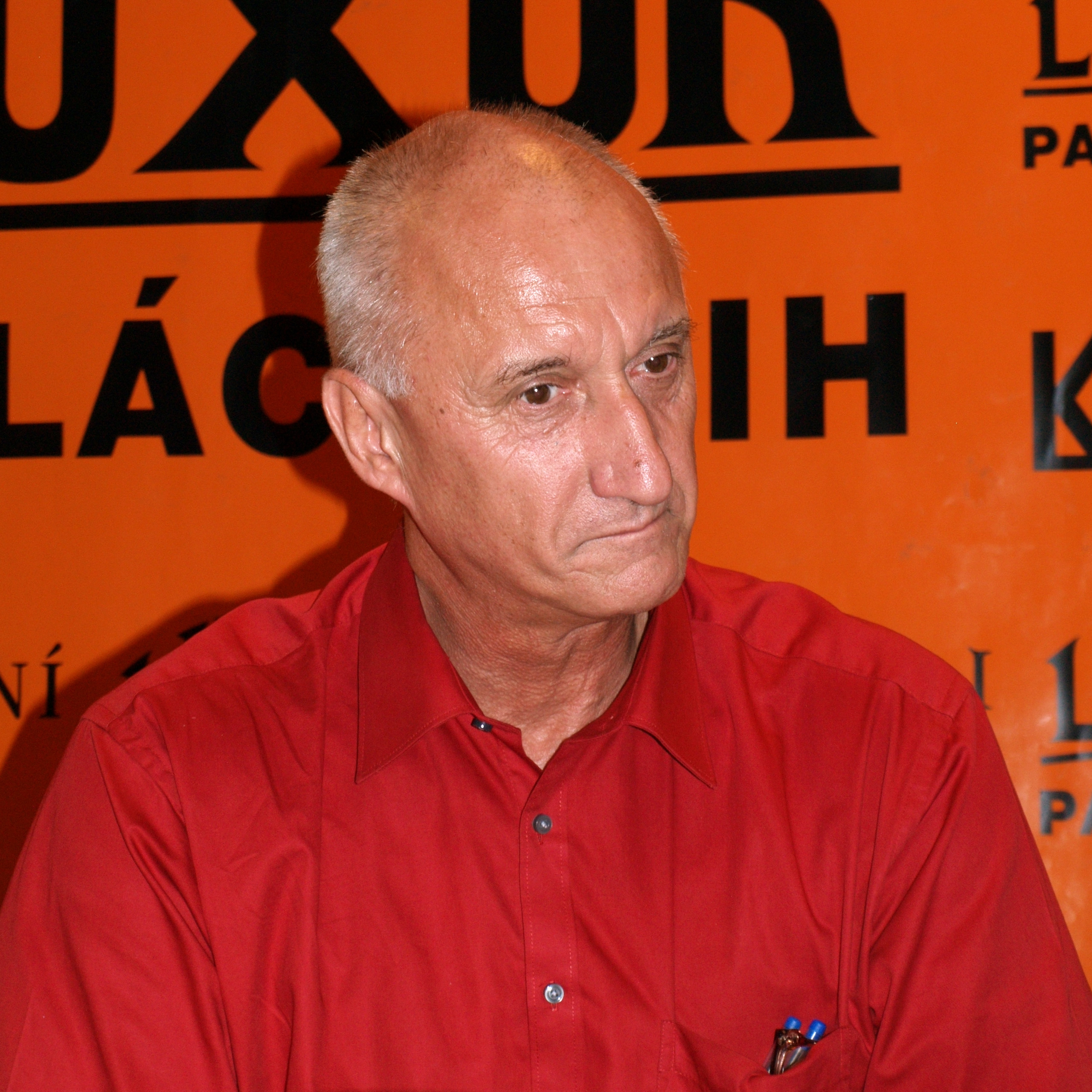 Slovak politician and writer Jozef Banáš during inauguration of his new book in Czech capital Prague